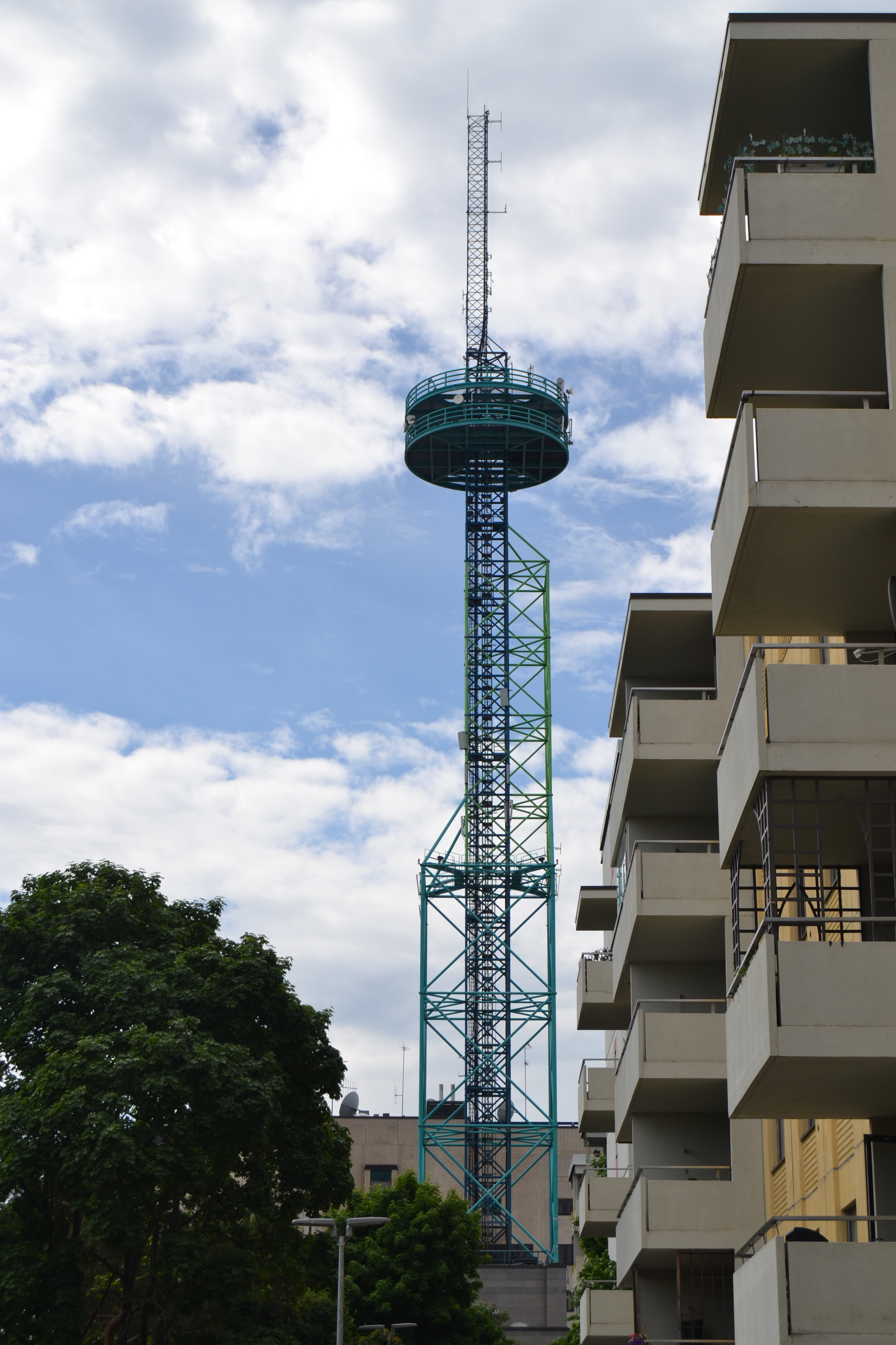 Elisa communication tower in Pasila, Helsinki